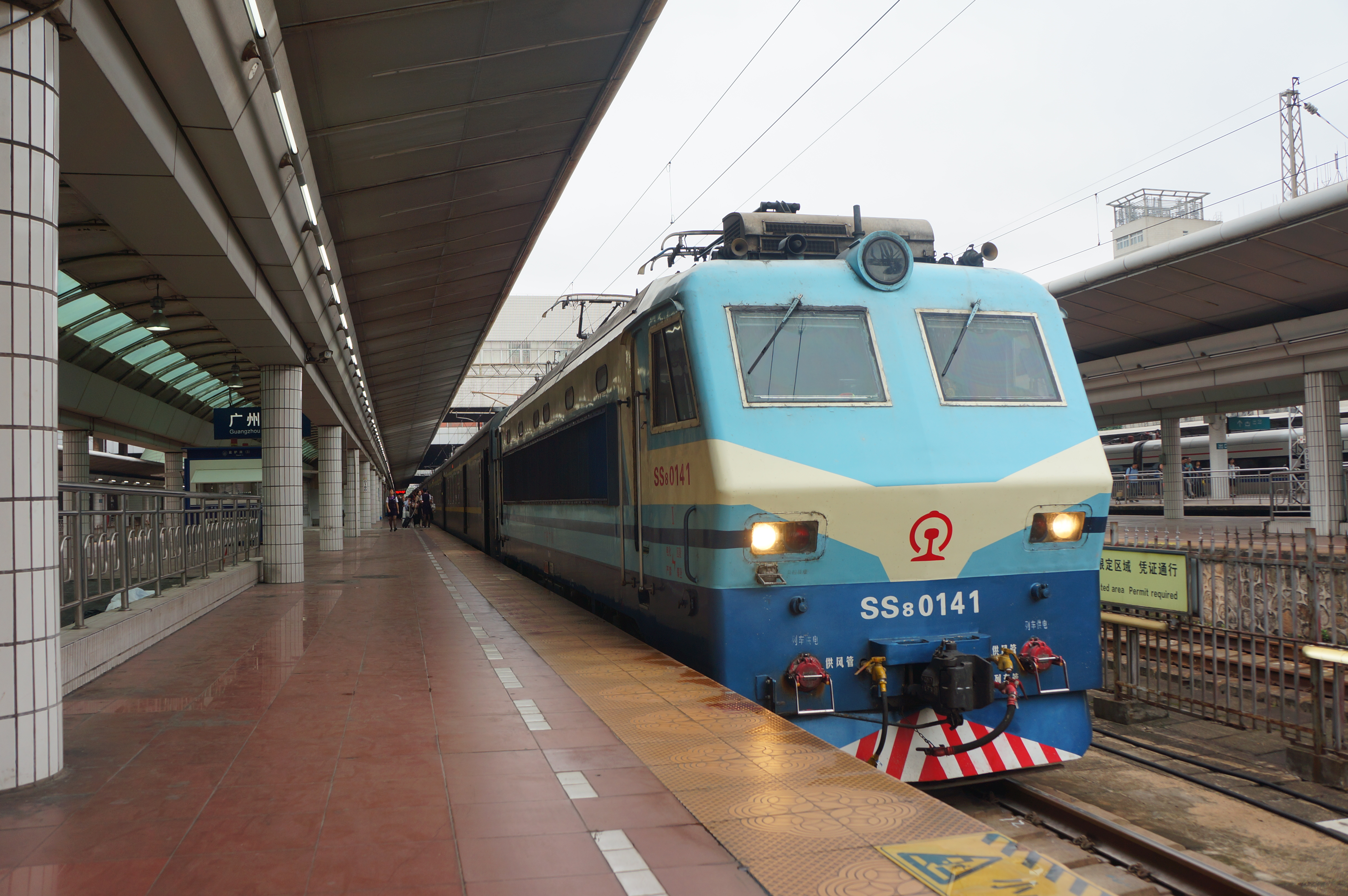 201609 Z817 waits for departure at Guangzhoudong Station. Again, be accused by immigration officers...